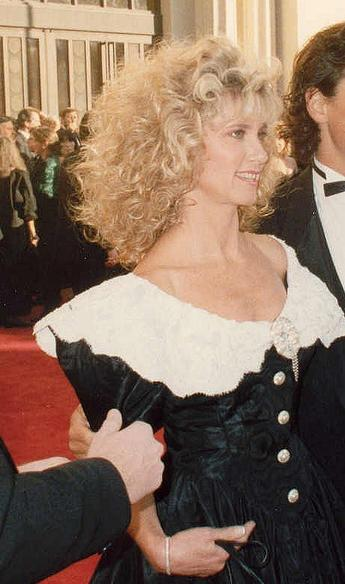 Actress and singer Olivia Newton-John at 61st Academy Awards on March 29, 1989